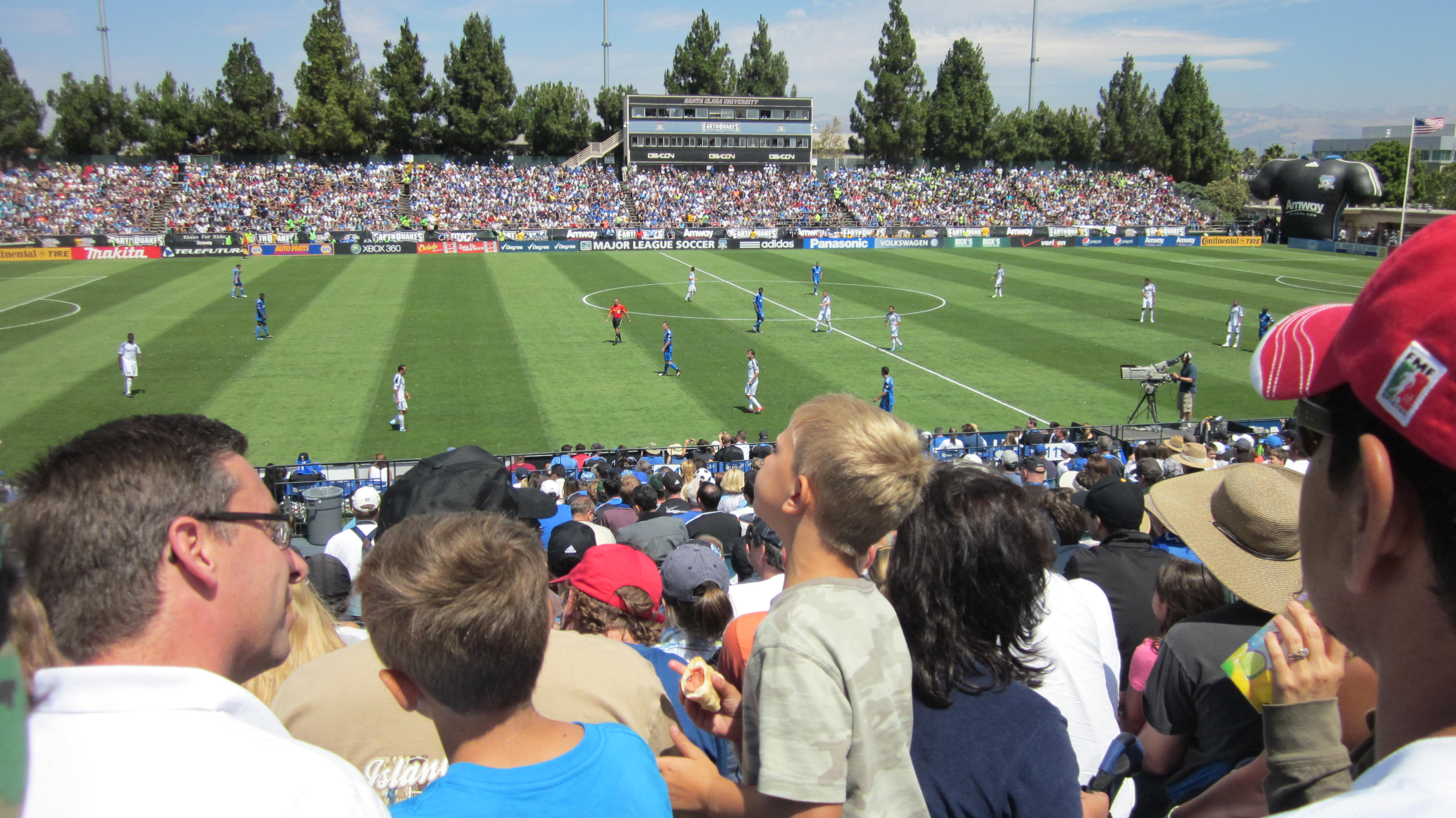 A match between the Los Angeles Galaxy and the San Jose Earthquakes at Buck Shaw Stadium in Santa Clara. The Earthquakes won 1-0.